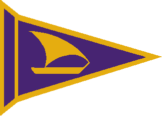 Yacht club flag